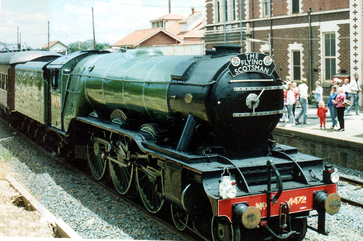 LNER 4472 Flying Scotsman at Seymour, Victoria, during its visit to Australia in 1988-89